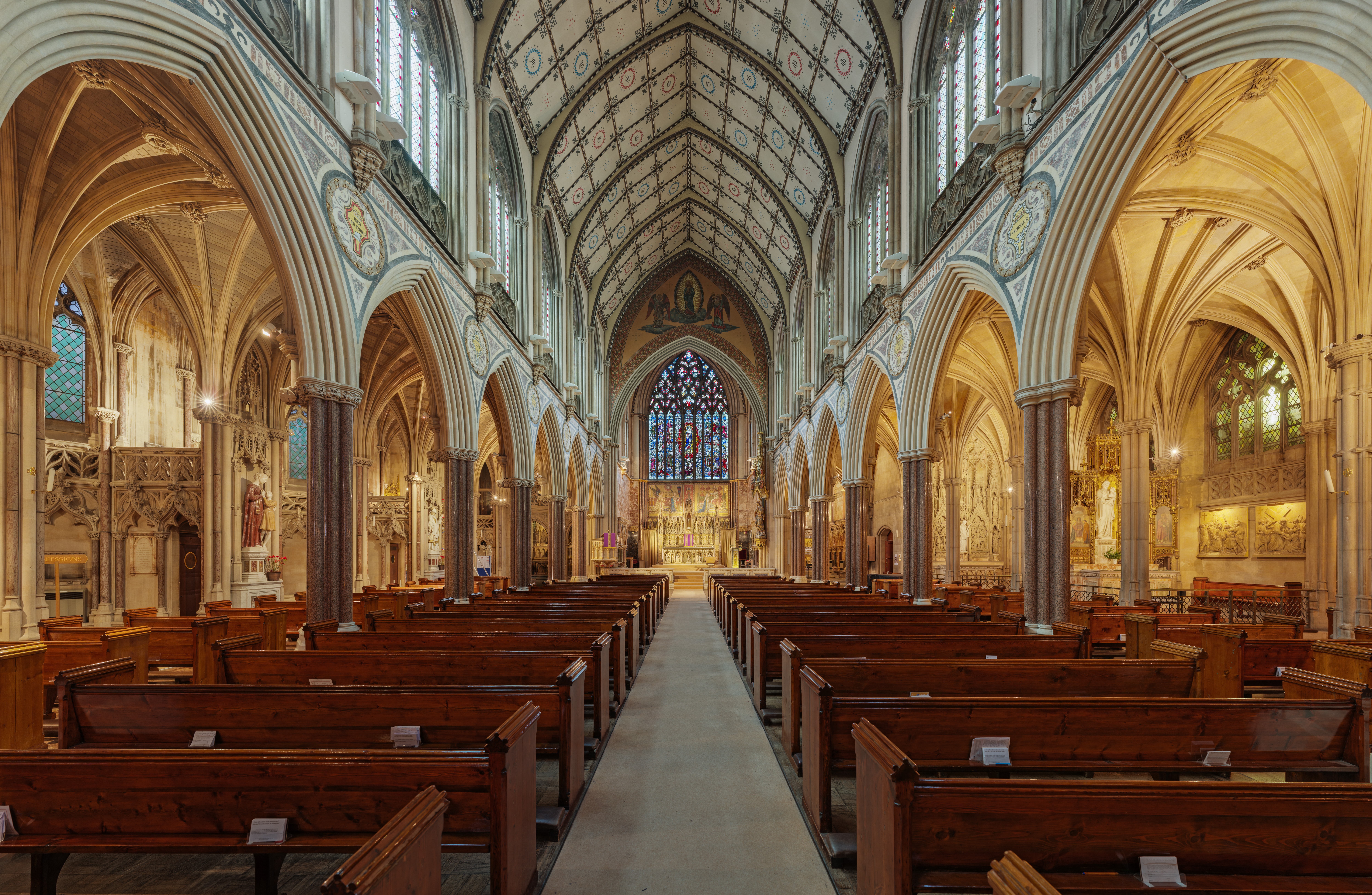 The nave of the Immaculate Conception Church, Farm Street, London, England.